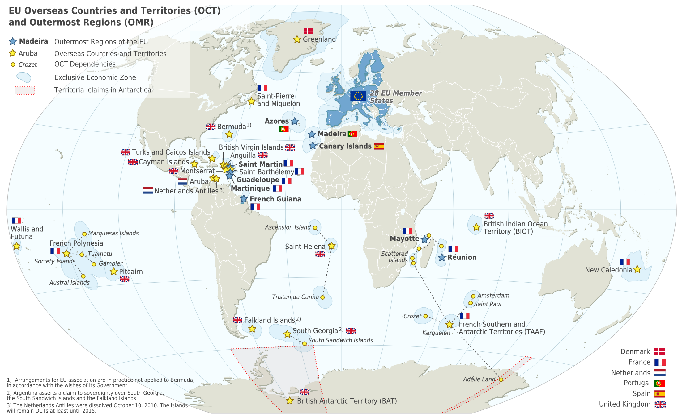 Map of the EU – Overseas Countries and Territories (OCT) and Outermost Regions (OMR). This map shows the territorial scope of the Treaties of the EU as specified by Article 52 of the Treaty on European Union and Article 355 of the Treaty on the Functioning of the European Union.